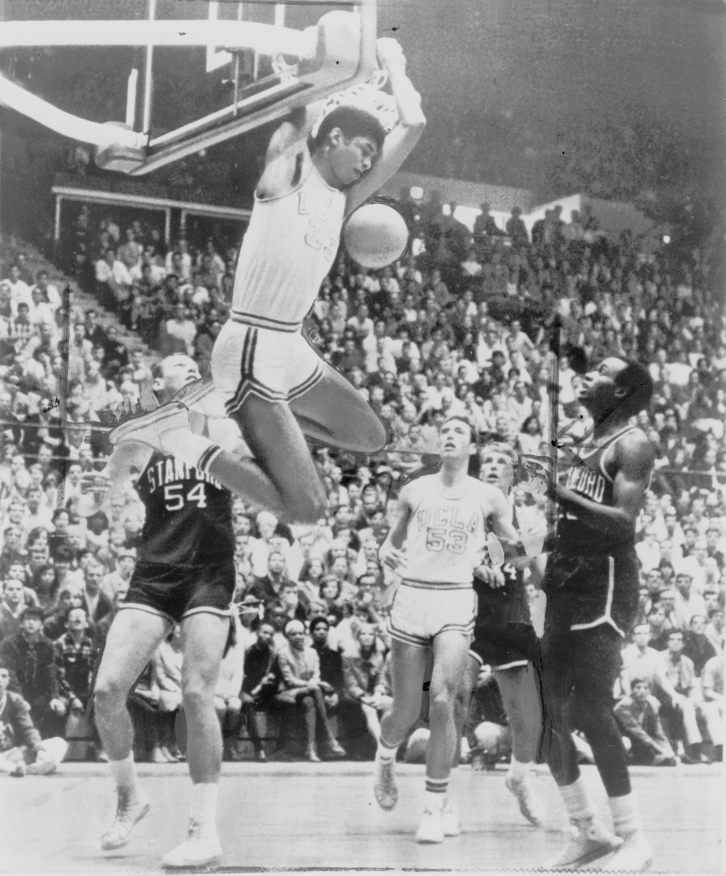 Lew Alcindor Kareem Abdul-Jabbar reaches over backwards to score